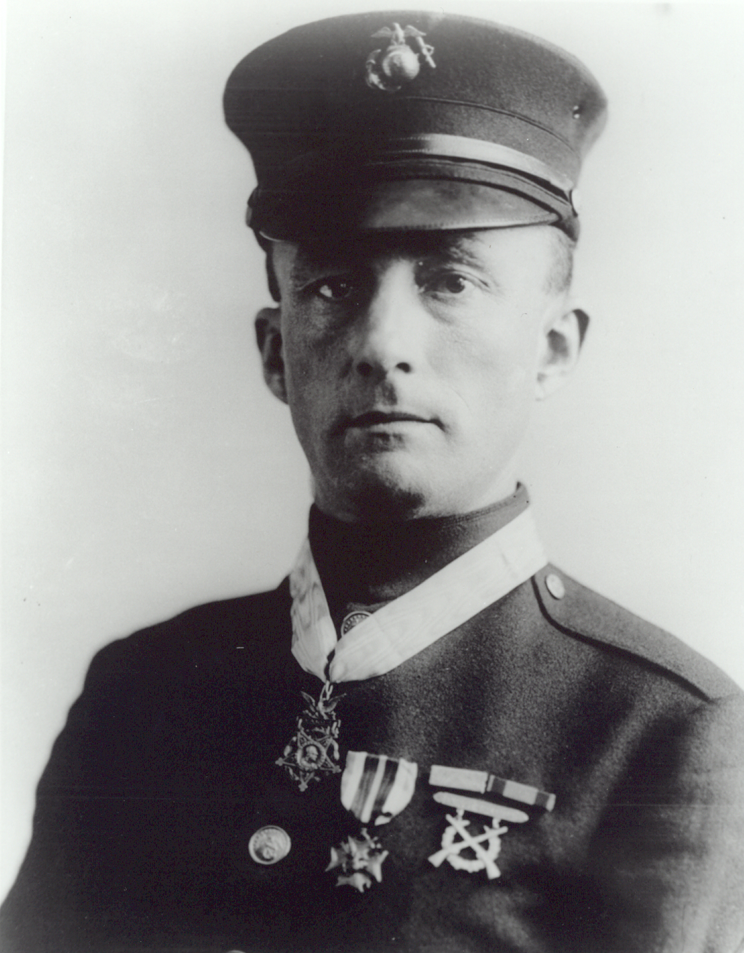 Ernest A. Janson, USMC, Medal of Honor recipient; high res image from Marine Corps website at